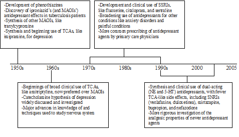 Timeline history 2010 / second edition